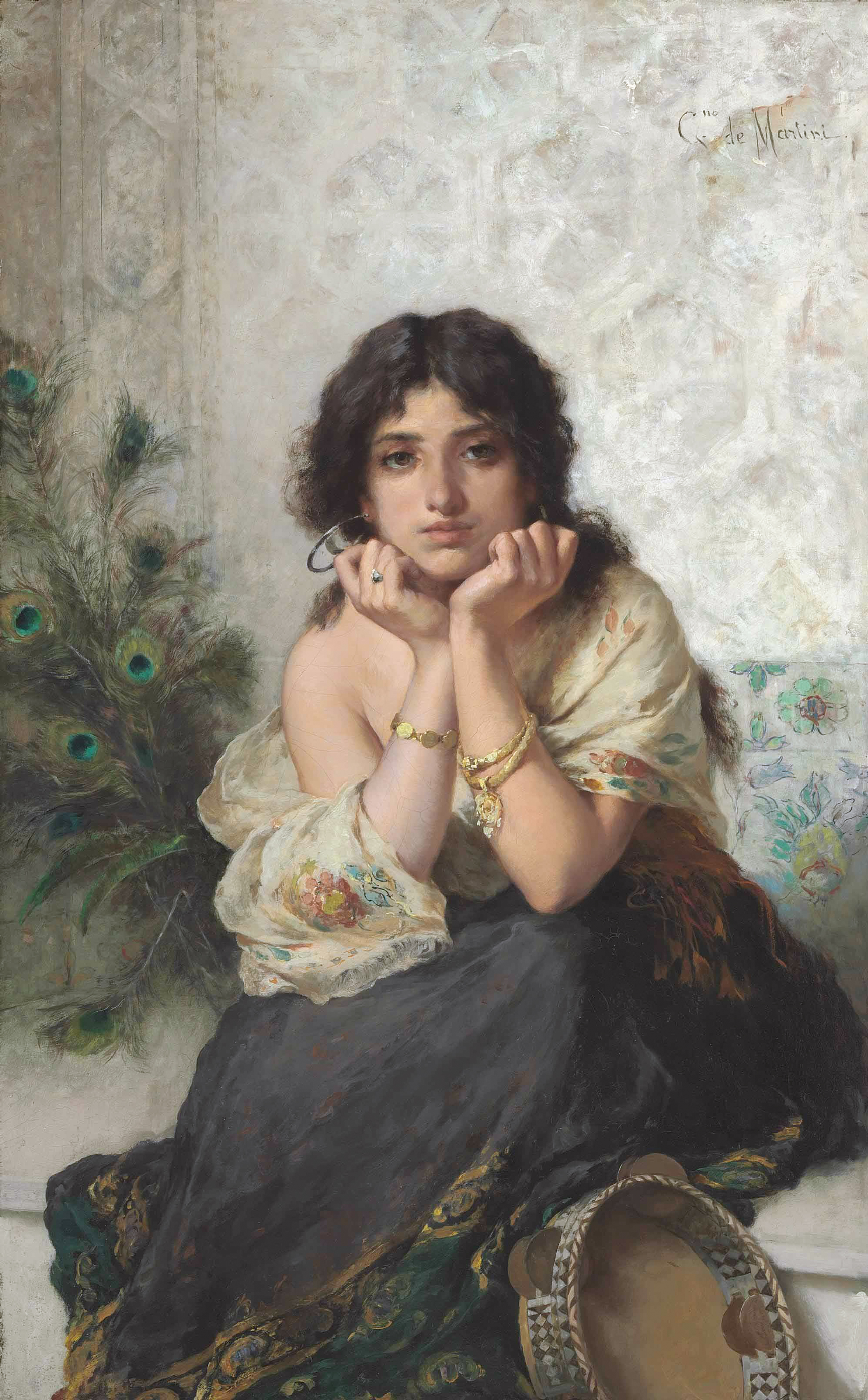 The Tambourine Girl oil on canvas laid down on panel 124.9 x 78.7 cm signed t.r.: Gno de Martini